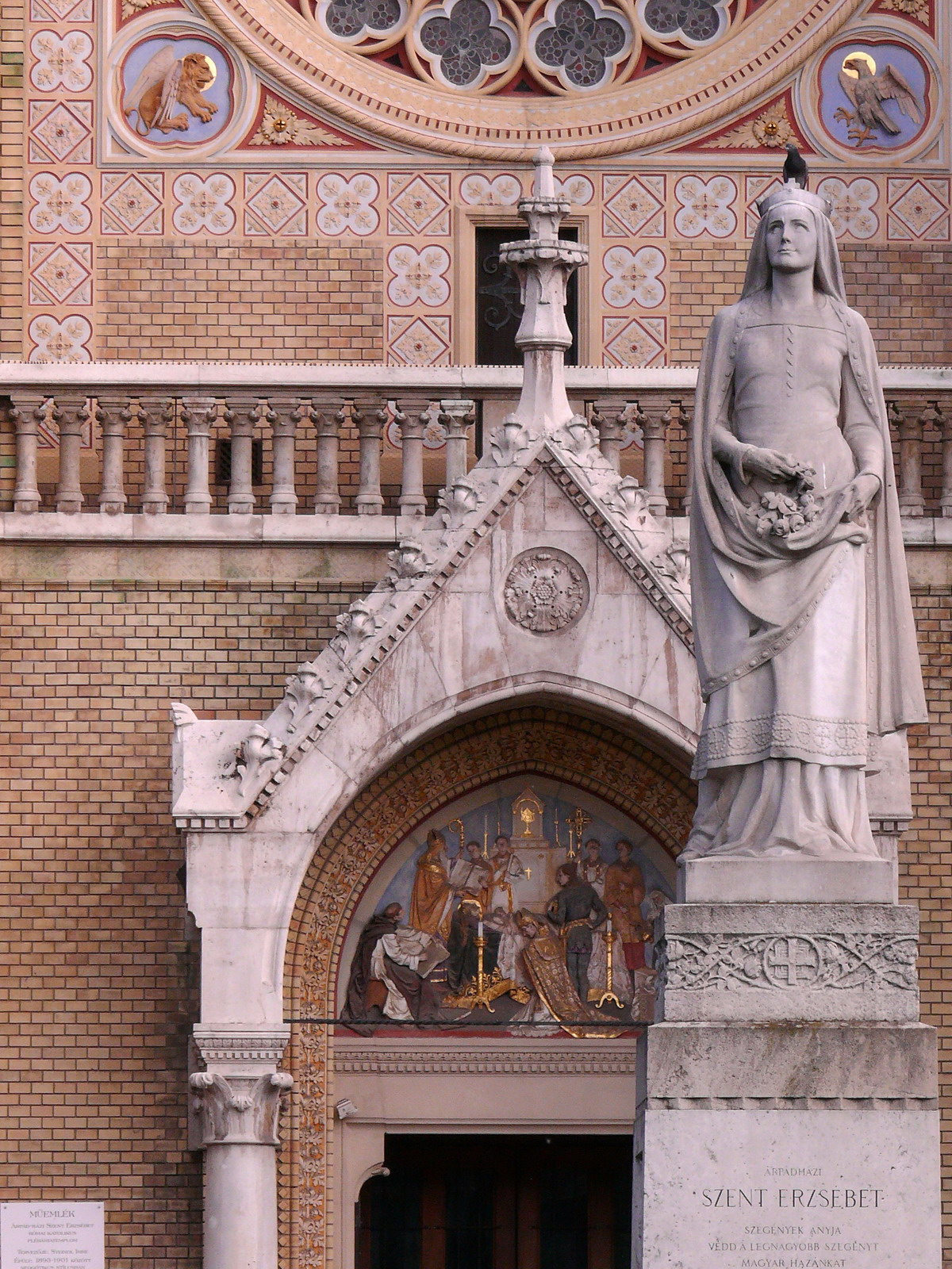 The St Elisabeth Church in Budapest